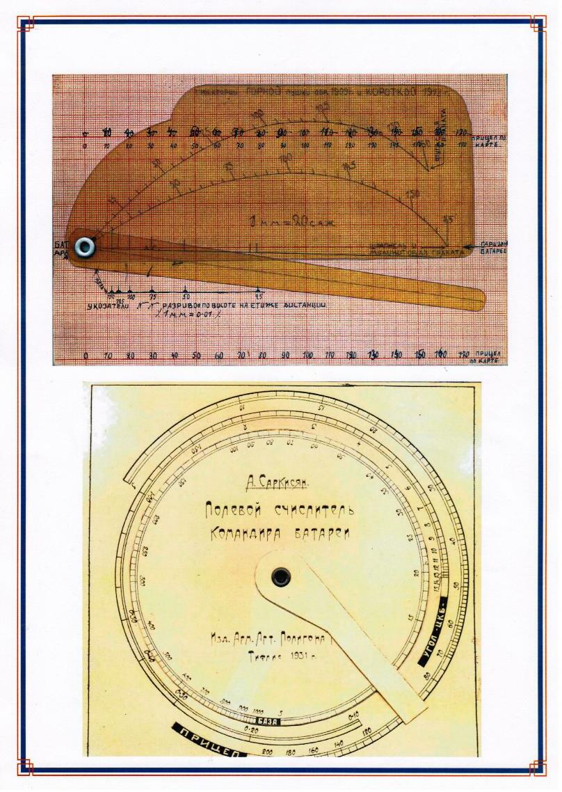 Полевой счислитель командира батареи